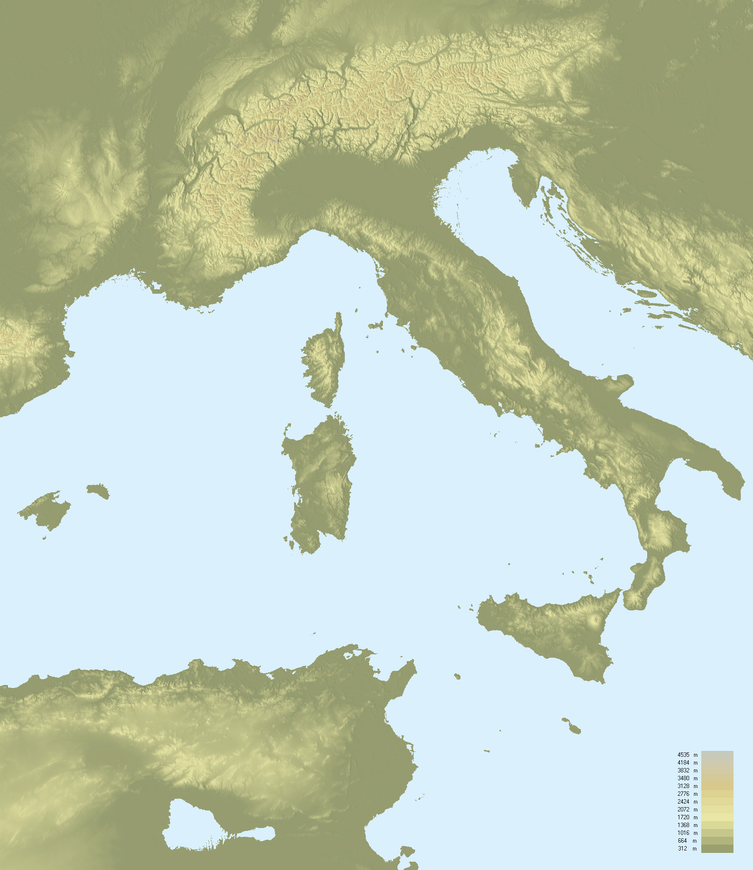 Topographic map of Italy